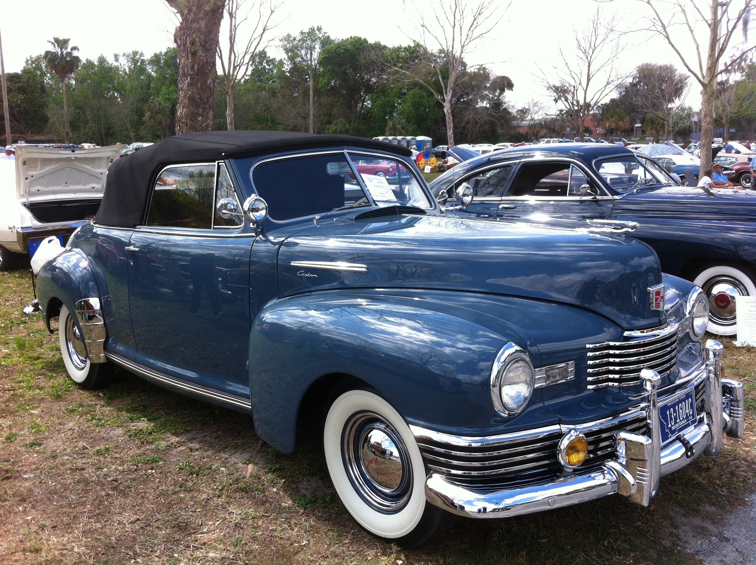 1948 Nash Ambassador convertible finished in blue. Picture taken at the 2013 Antique Automobile Club of America (AACA) meet in Lakeland, Florida.